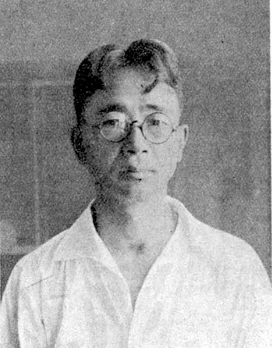 Ichirō Hayasaka